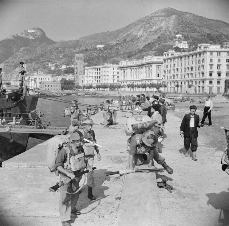 The British Army in Italy 1943 Troops climb over a quayside wall after coming ashore at Salerno, 10 September 1943.